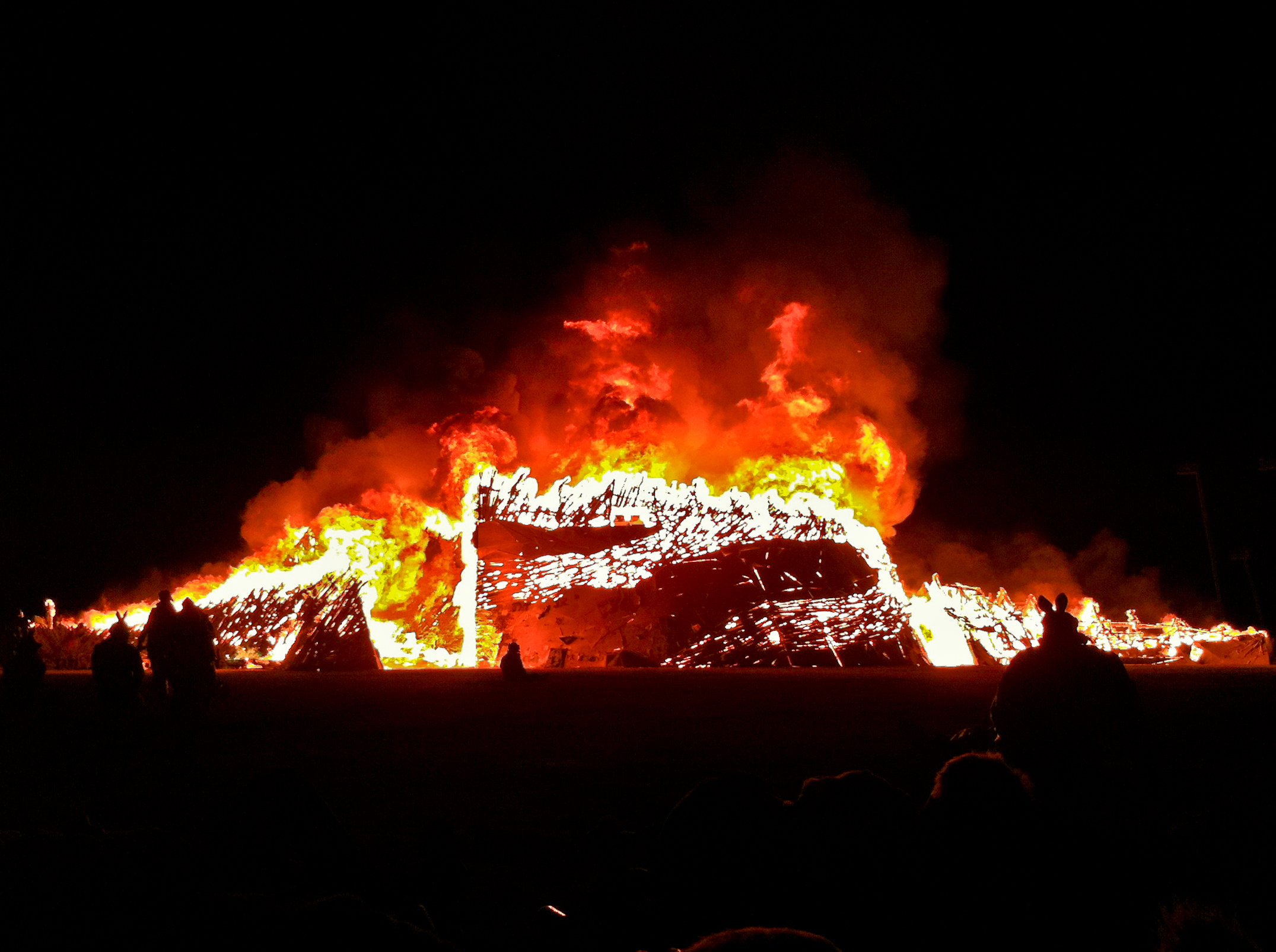 Temple of Flux